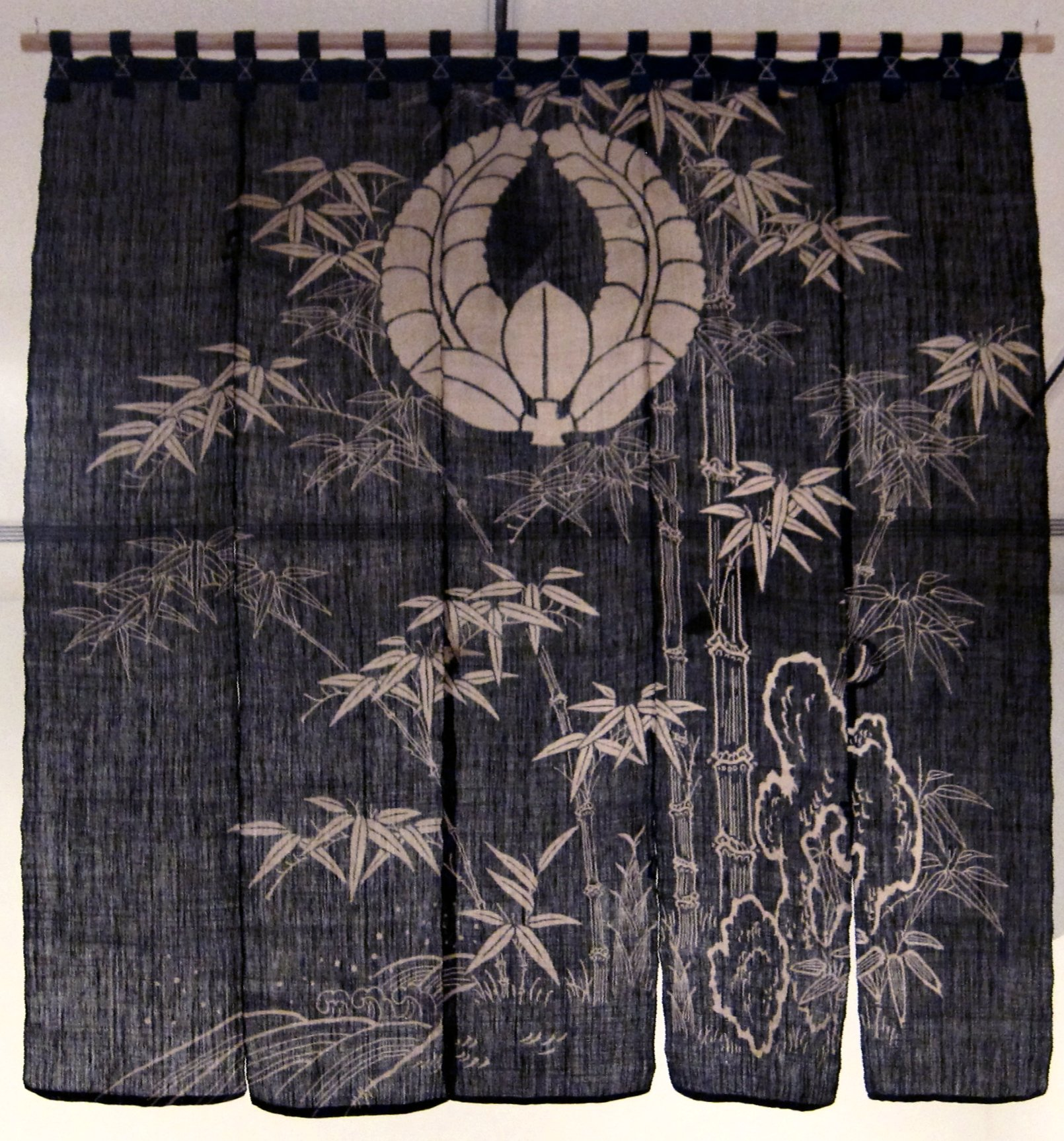 Noren (curtain), Japan, Meiji period (1868-1912), hemp, cotton (loops), indigo dye and sumi ink, plain weave, tsutsugaki (tube drawn) rice paste resist, dip-dyed in indigo, brushed ink, Honolulu Museum of Art